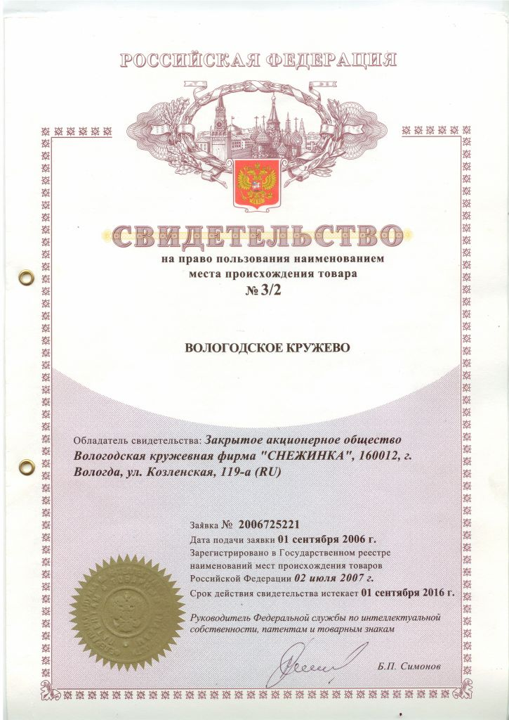 Appellation of origin use certificate No. 3/2 (Russia)